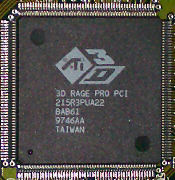 ATI 3D Rage Pro chip photo